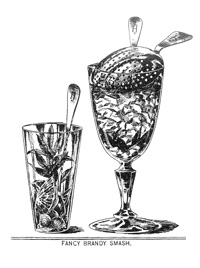 Fancy Brandy Smash